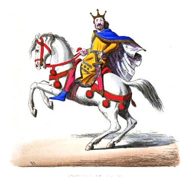 Arnulf I, Count of Flanders